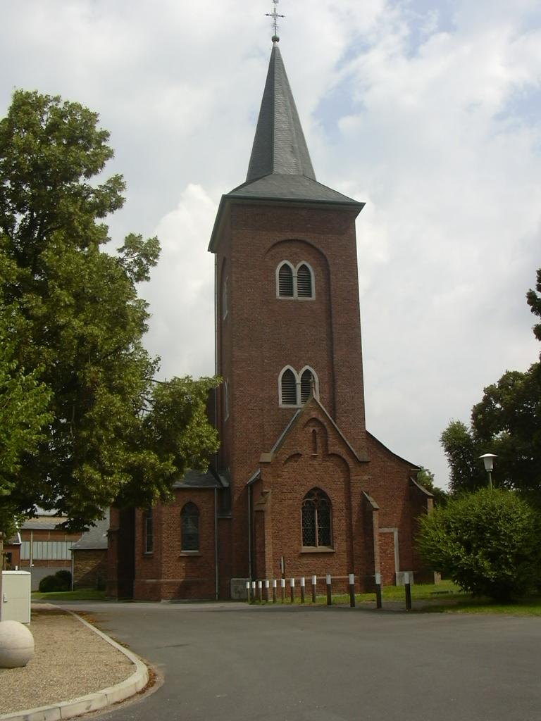 Lenedersdorf (Düren), Kirche own work papa1234 2006-08-04